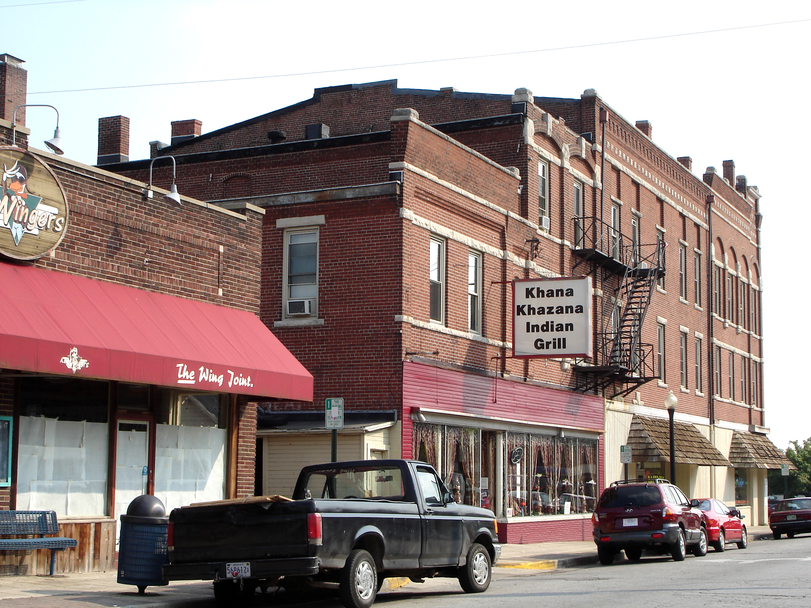 West Lafayette, Indiana